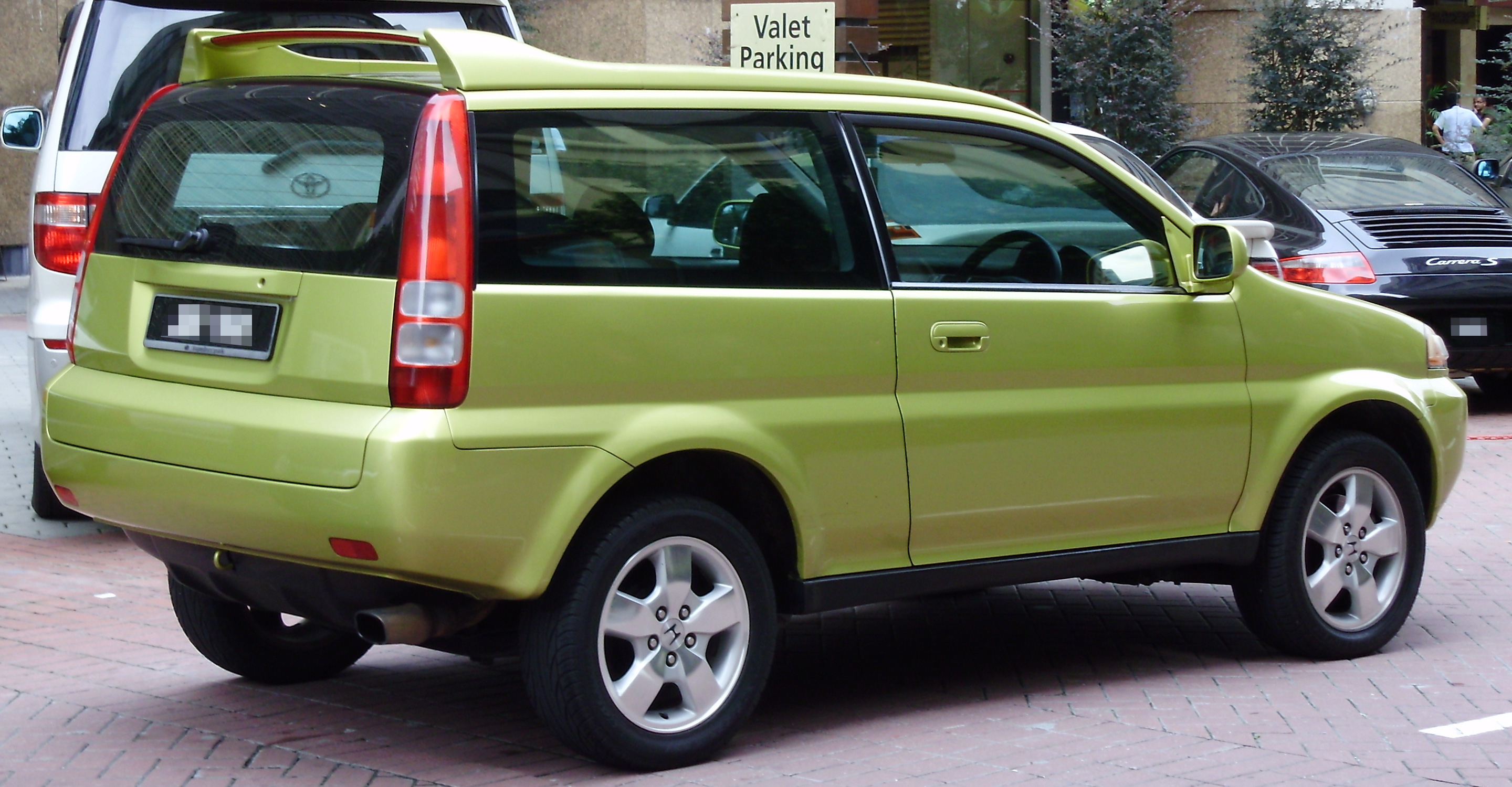 Rear quarter view of a three-door, first generation Honda HR-V in Kuala Lumpur, Malaysia.